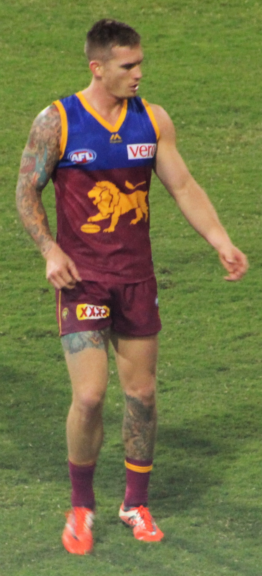 Dayne Beams at the Round 6, 2017 game for the Brisbane Lions against Port Adelaide.